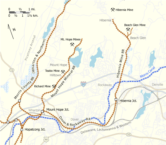 Central Railroad of New Jersey's High Bridge Branch iron mine railroads. Includes the Mount Hope Mineral Railroad and the Hibernia Mine Railroad, as well as the connecting Dover and Rockaway Railroad.